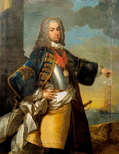 Portrait of King John V of Portugal, in front of the River Tagus